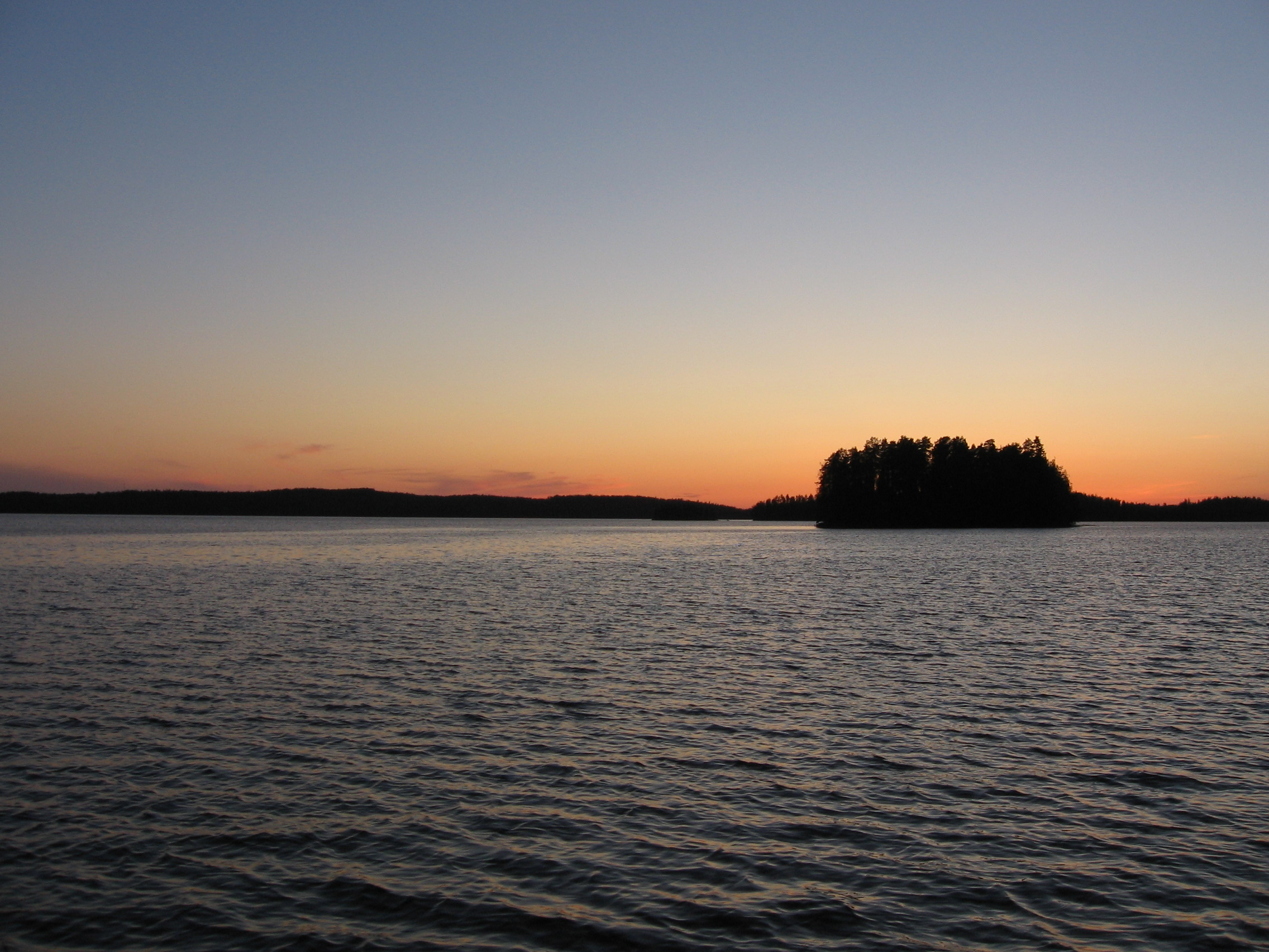 Picture from Enonvesi-lake in Mäntyharju, Finland.